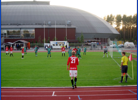 Joensuu central sportfield Keskuskenttä